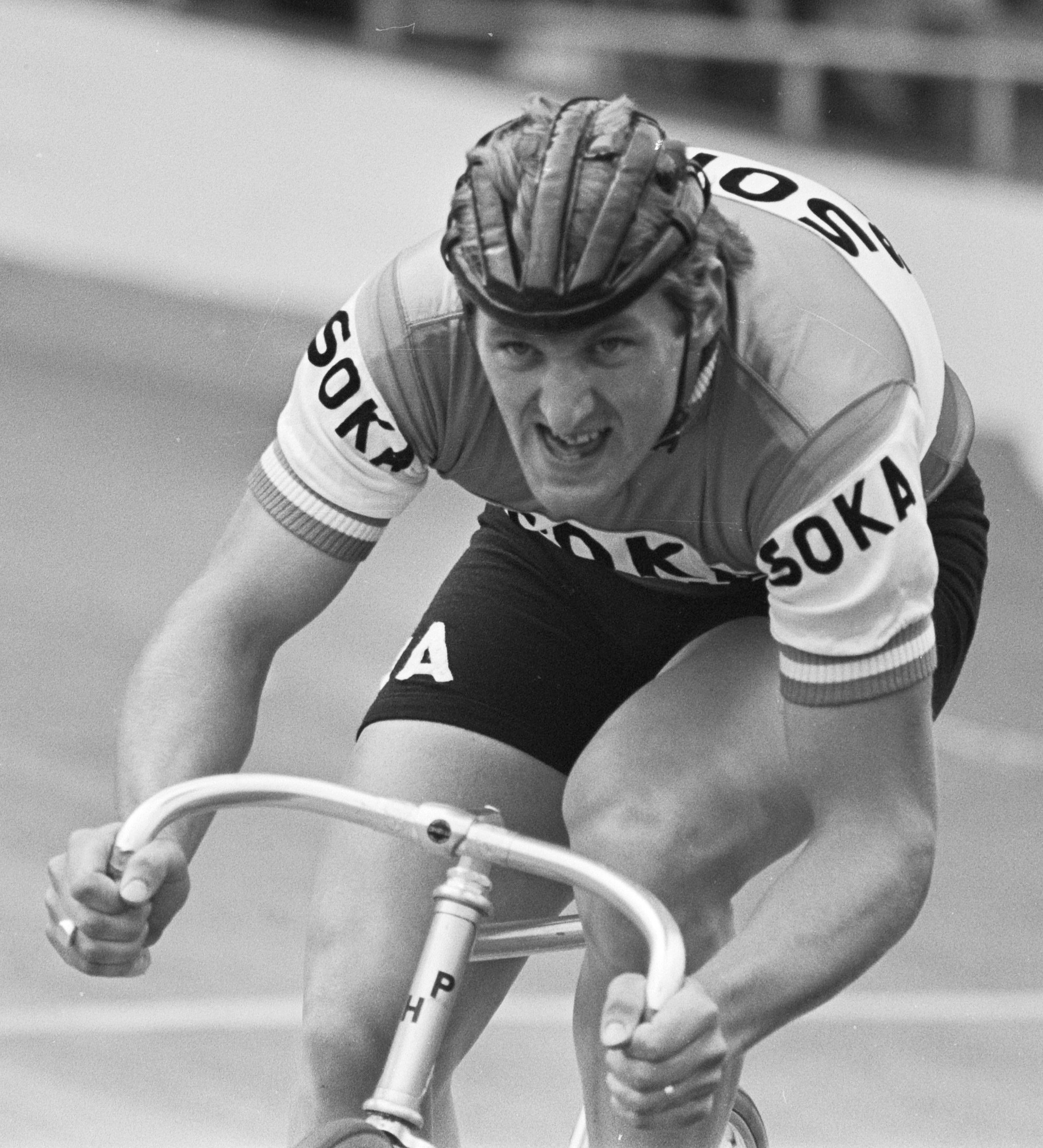 Herman Ponsteen, pursuit race at the national championships